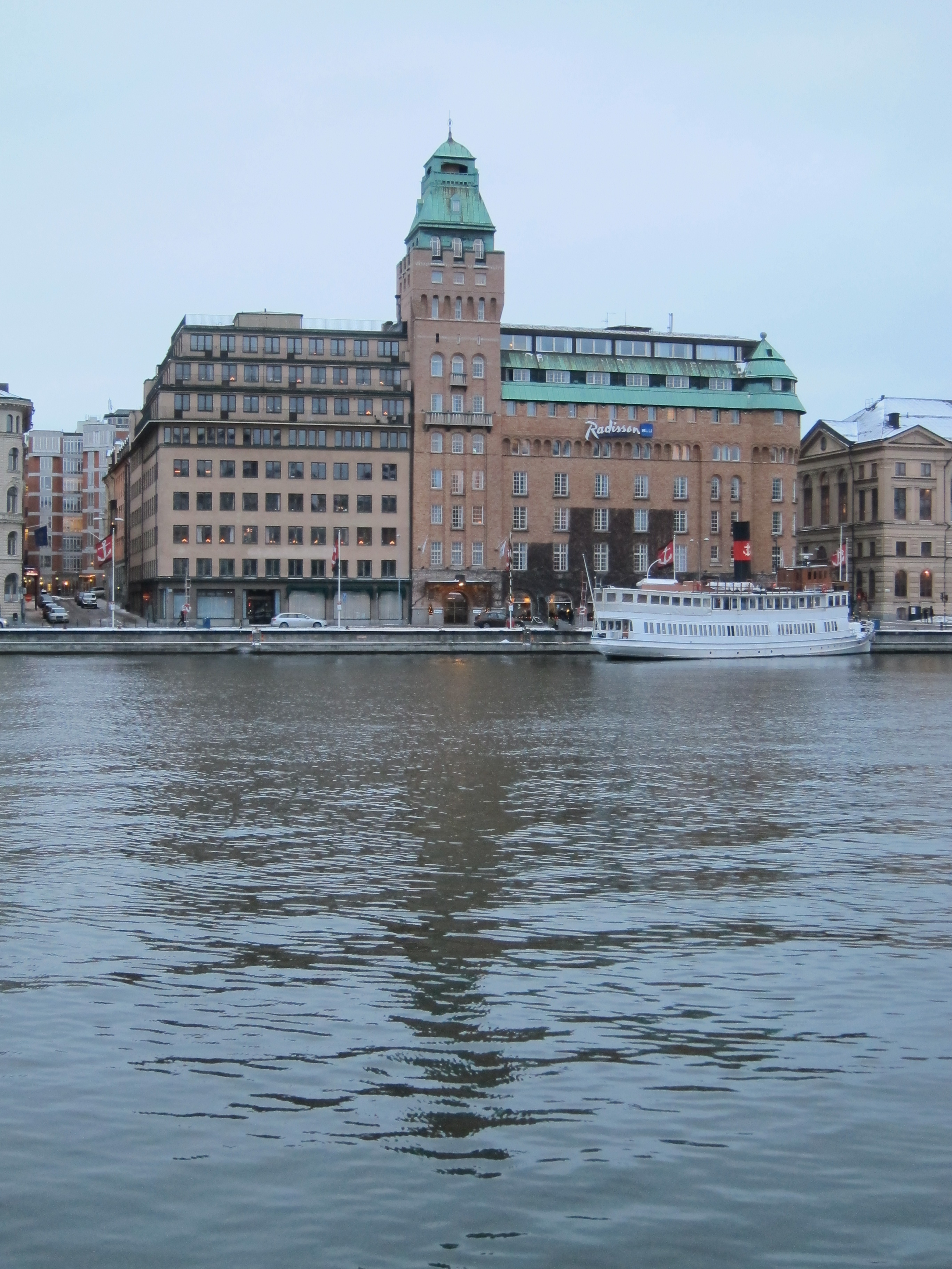 Radisson Blu Strand Hotell in Stockholm, the ship Vasa was built on the site in the years 1626-1628